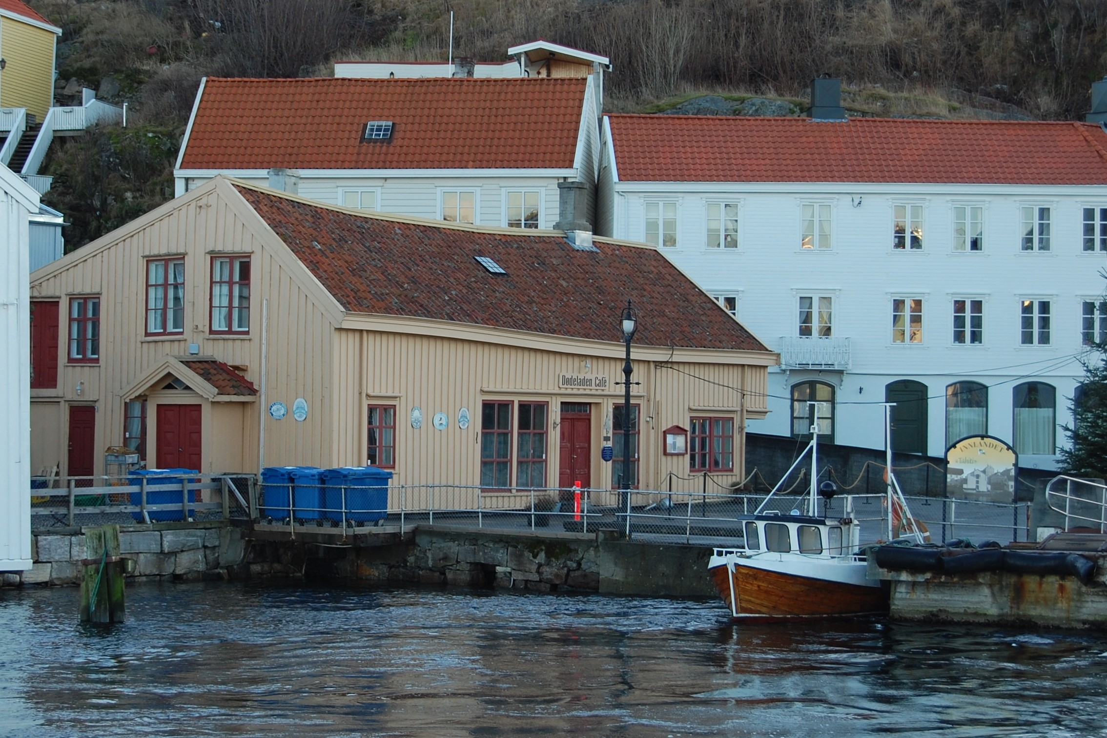 Dødeladen restaurant at Innlandet in Kristiansund